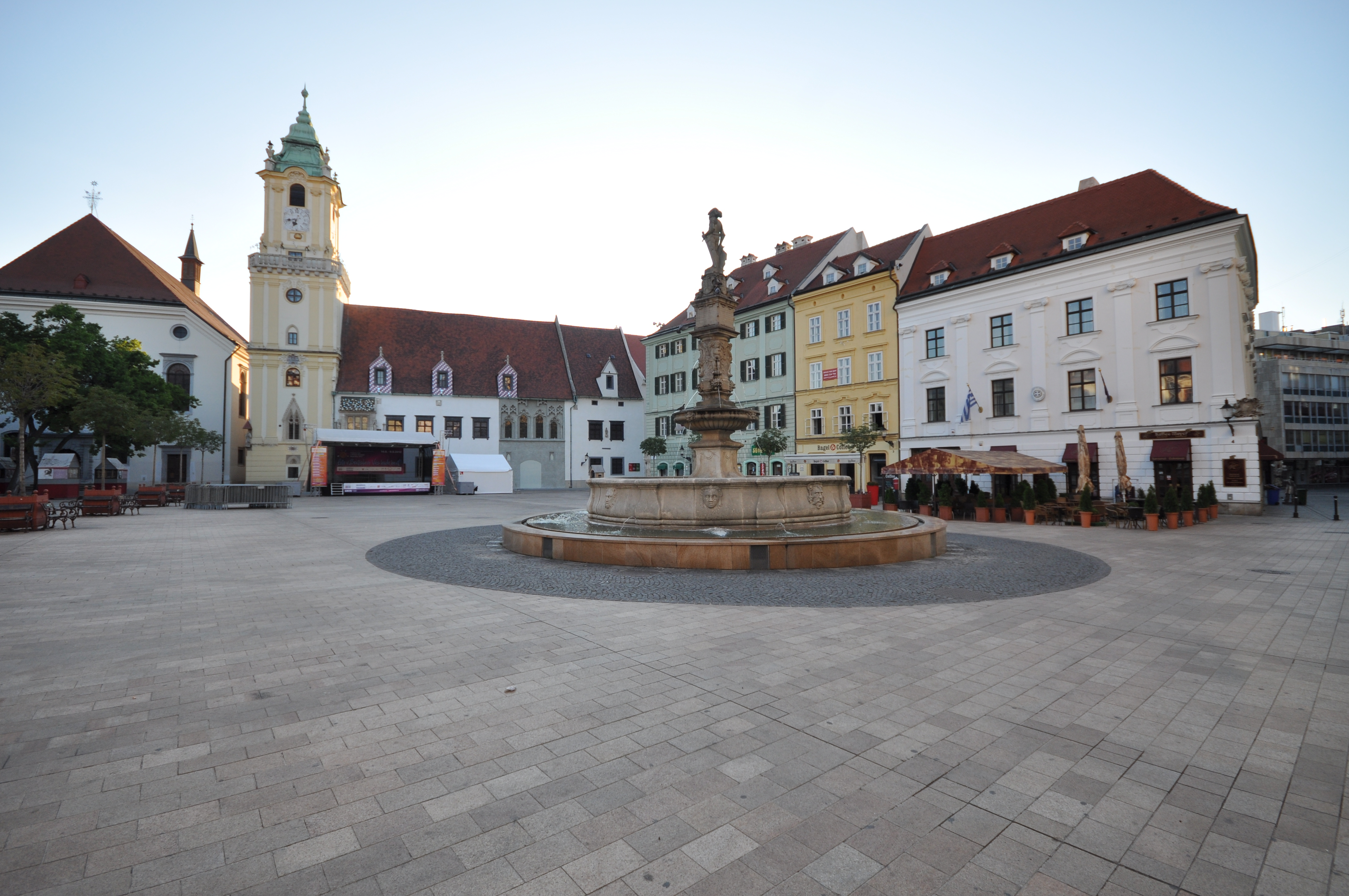 Hlavné námestie (literally "Main Square") is one of the best known squares in Bratislava, Slovakia. It is located in the Old Town and it is often considered to be the center of the city. The most important landmarks include the Old Town Hall and Roland Fountain. Name During the socialism period (1948–1989), the square was named Námestie 4. apríla (literally 4 April Square, April 4 having been the day when Bratislava was liberated by the Red Army at the end of World War II). Earlier names were Slovak: Hitlerovo namestie (1939–1945), Slovak: Masarykovo namestie, Hungarian: Ferenc József tér (1914), Hungarian: Fő tér